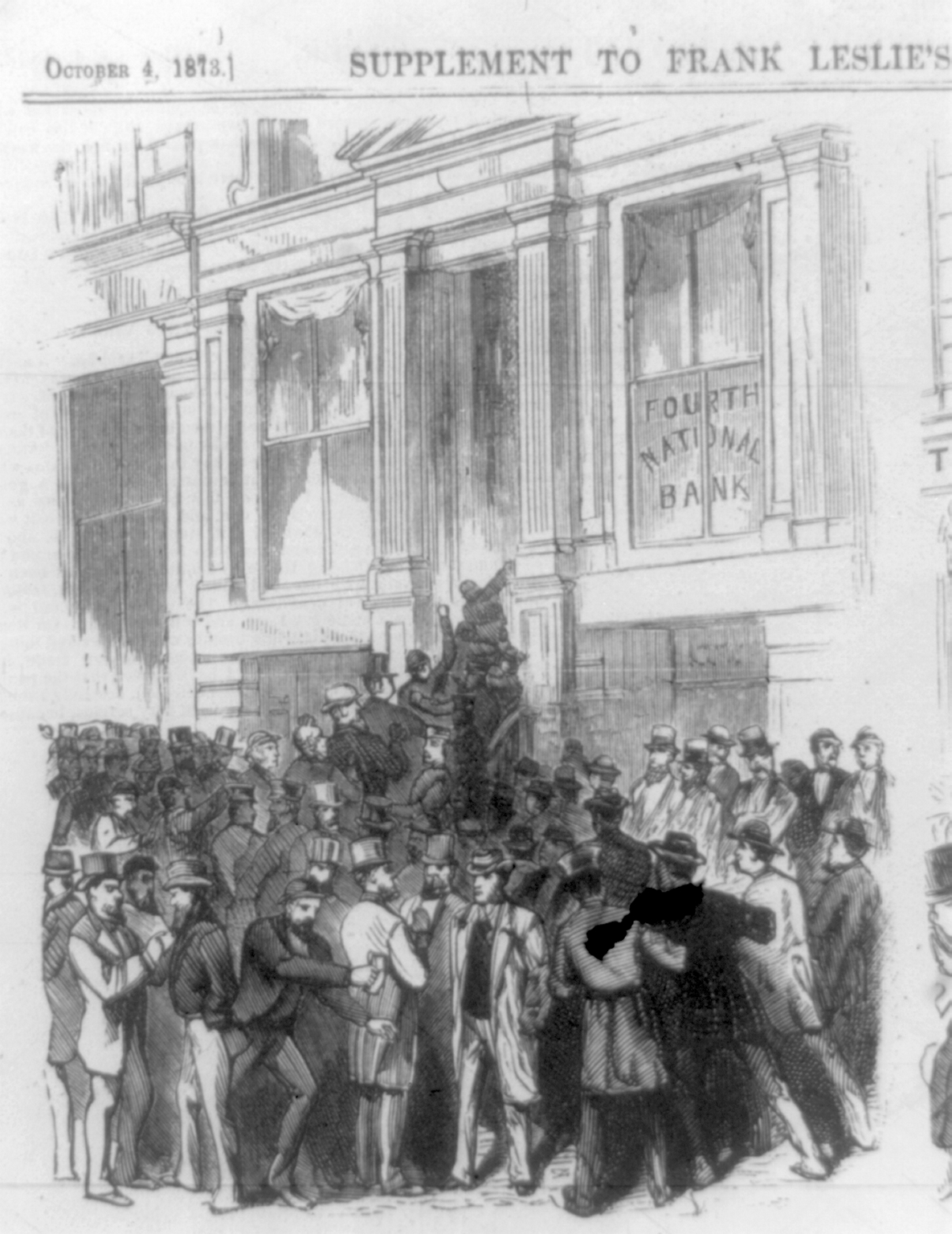 The Panic - Run on the Fourth National Bank, No. 20 Nassau Street. Illus. in: Frank Leslie's Illustrated Newspaper, 1873 Oct. 4, p. 67.